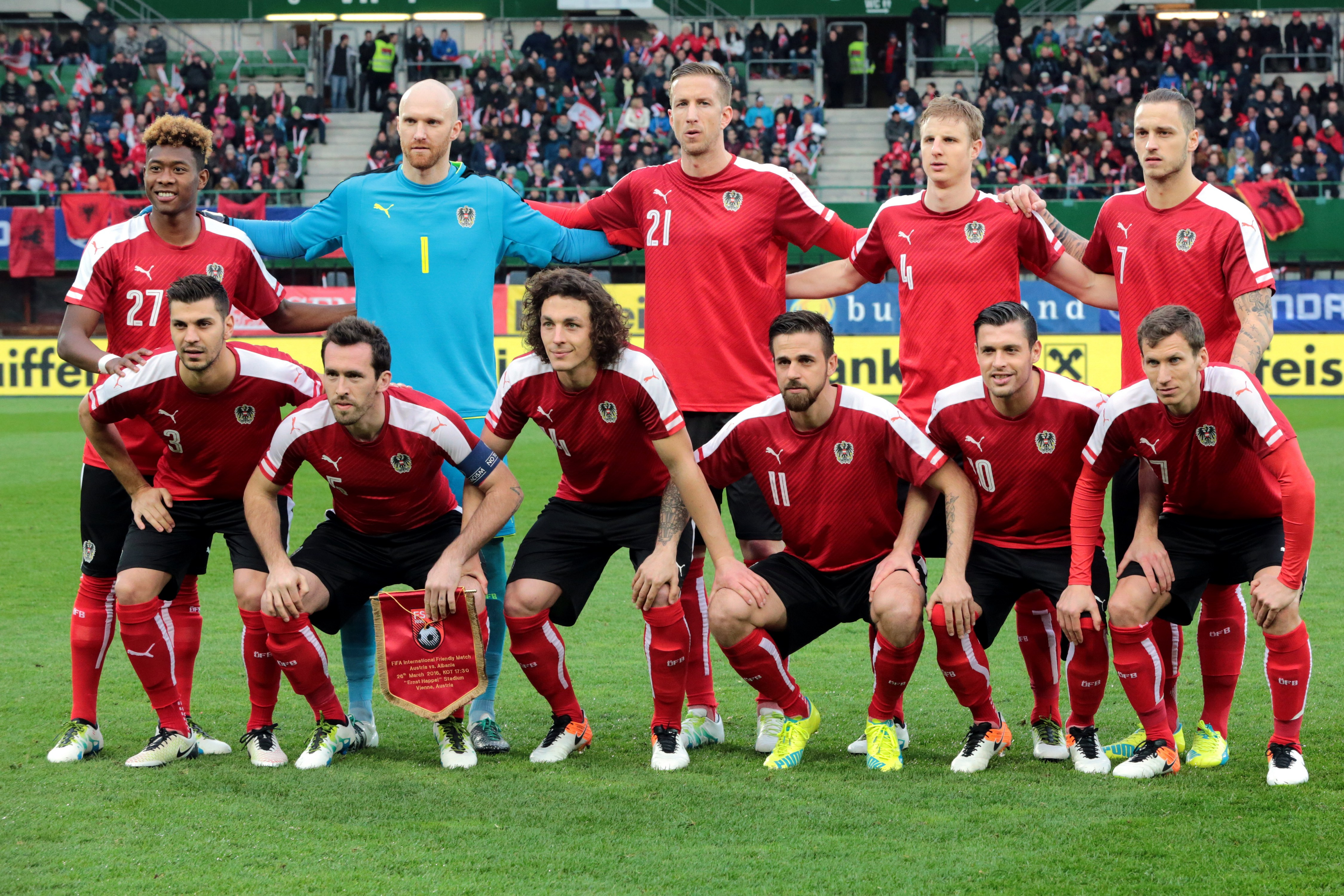 Friendly match – Austria (red shirts) vs. Albania (white shirts) 2–1 (2–0) on 2016-03-26 in Ernst-Happel-Stadion, Vienna – The photo shows the Austrian national football team (from left to right): 1st row: Aleksandar Dragović (Dynamo Kiew), Christian Fuchs (Leicester City), Julian Baumgartlinger (Mainz 05), Martin Harnik (VfB Stuttgart), Zlatko Junuzović (Werder Bremen) and Florian Klein (VfB Stuttgart); 2nd row: David Alaba (FC Bayern), Robert Almer (Austria Wien), Marc Janko (FC Basel), Martin Hinteregger (Borussia Mönchengladbach) and Marko Arnautović (Stoke City.)